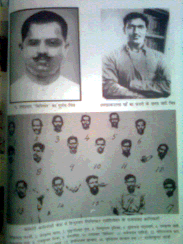 This is the image created and contributed by me in the public domain.Seen in this group photo are: (from left to right)1.Yogesh Chatterji,2.Prem Krishna Khanna,3.Mukundi Lal Gupta,4.Vishnu Sharan Dublish,5.Suresh Chandra Bhattacharya,6.Ram Krishna Khatri,7.Manmath Nath Gupta,8.Raj Kumar Sinha,9.Roshan Singh,10.Ram Prasad 'Bismil',11.Rajendra Lahiri,12.Govind Charan Kar,13.Ram Dulare Trivedi,14.Ram Nath Pandey,15.Shachindra Nath Sanyal,16.Bhupendra Nath Sanyal & 17.Pranvesh Chatterji.Krantmlverma ०७:५१, ३० अप्रैल २०११ (UTC) Source: My book Swadhinata Sangram Ke Krantikari Sahitya Ka Itihas डॉ०क्रान्त एम०एल०वर्मा (वार्ता) 05:59, 8 अगस्त 2012 (UTC) Additional Information: This image was published for the first time in the book Kakori Ke Diljale(Hindi) by Ram Dulare Trivedi in 1939 which was proscribed by British Raj.डॉ०क्रान्त एम०एल०वर्मा (वार्ता) 05:59, 8 अगस्त 2012 (UTC)